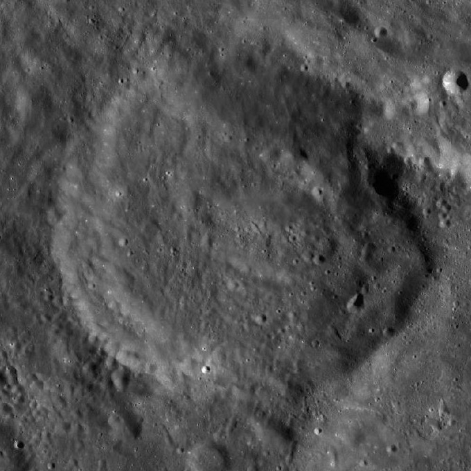 Belopol'skiy crater, on the far side of the moon. Mosaic of LRO WAC images.